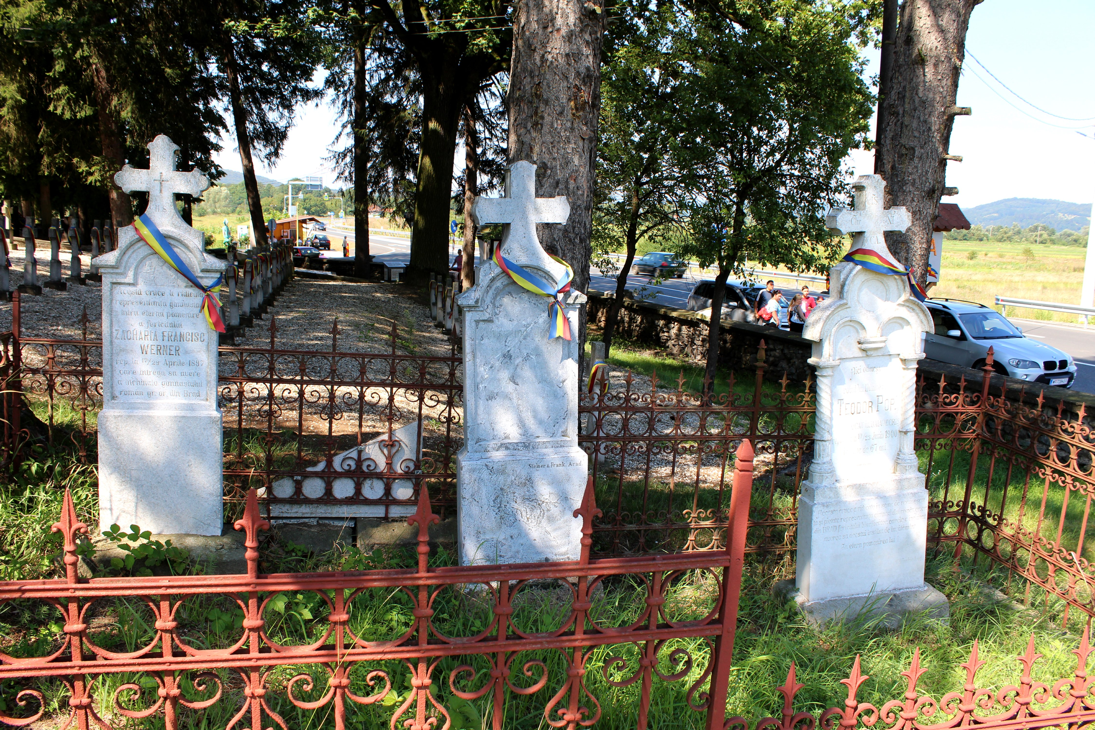 Tombs of Zaharia Francisc Werner, Sigismund Borlea and Teodor Pop, supporters of of the Romanian education in Brad, in Heroes Cemetery in Țebea, Hunedoara, Romania.